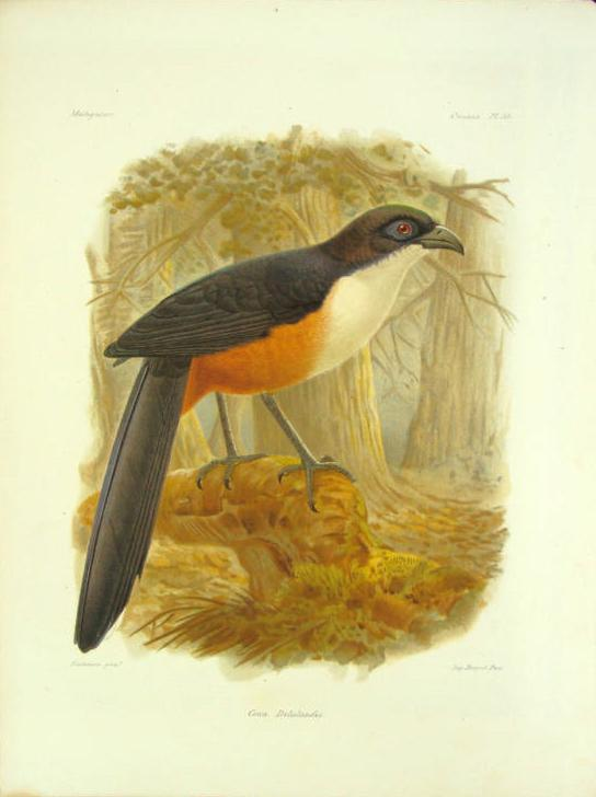 Chromolithic print finished by hand from Bocourt et Fagnet, Paris. Was produced for Alfred Grandidier's 1836-1921) ”L`Histoire Politique, Physique Et Naturelle De Madagascar”.